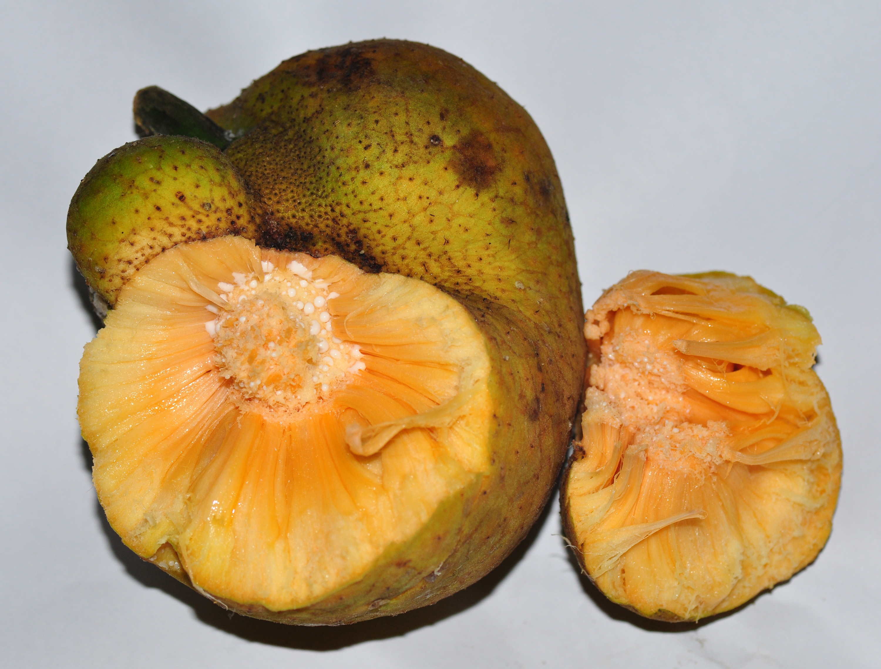 Lakoocha or Monkey Jack (Artocarpus lakoocha)